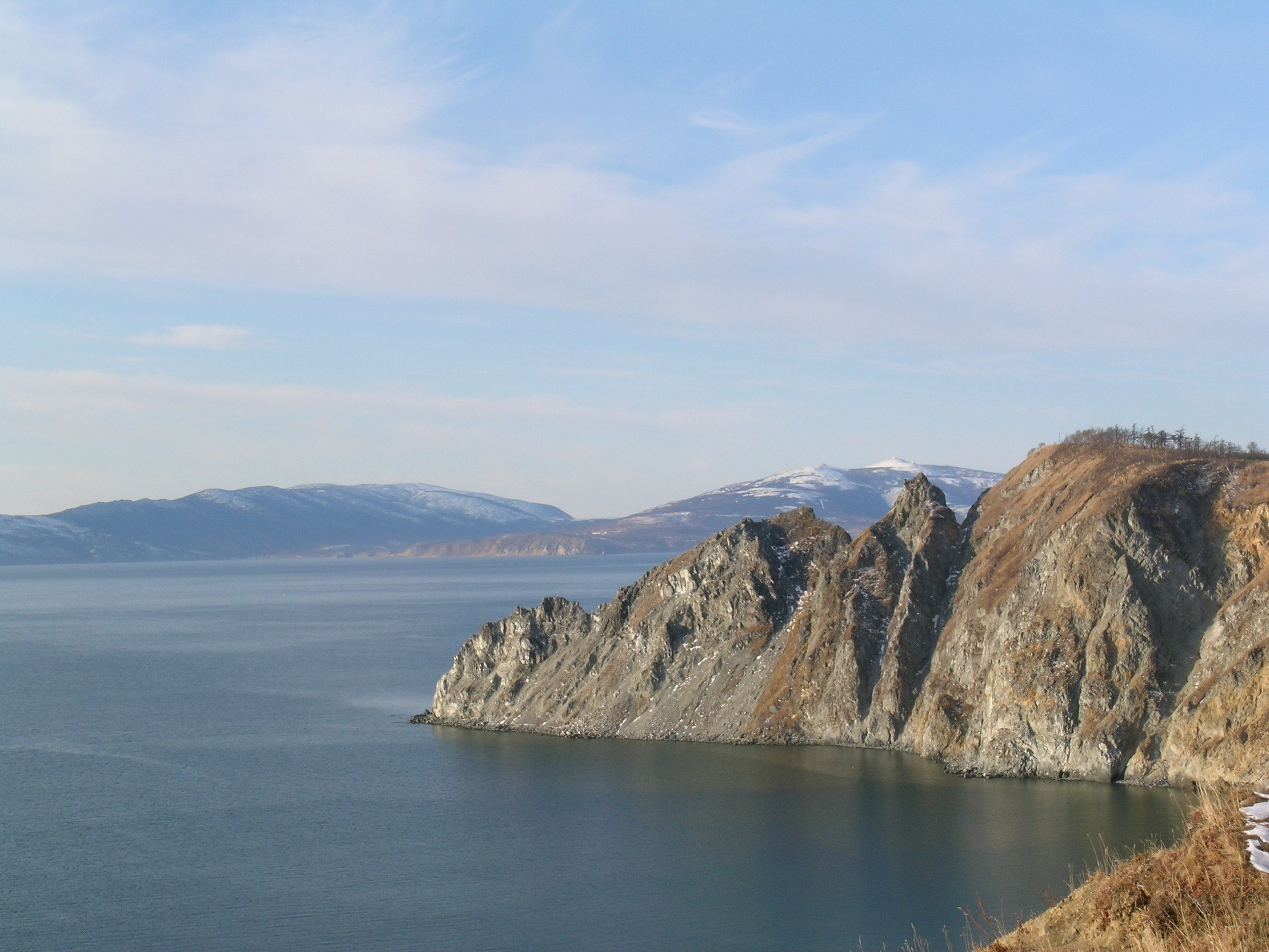 Nagayev bay, shot from a place not far from Ola, Magadan Oblast.